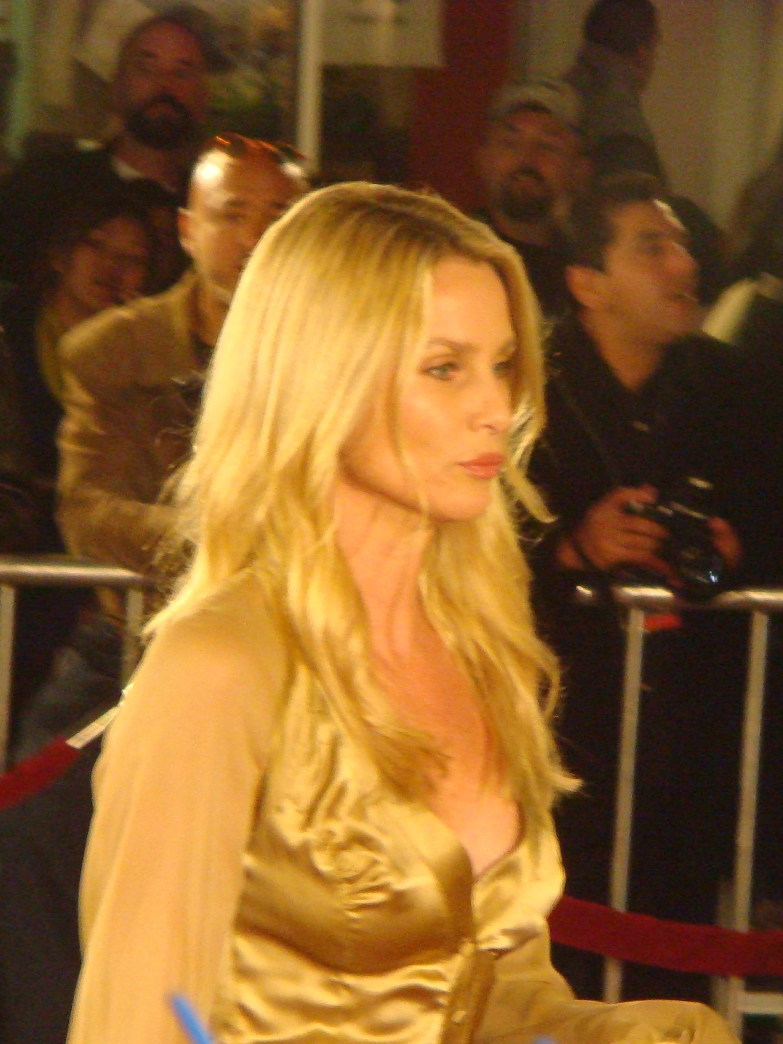 Actress Nicollette Sheridan at the premiere of the movie Beowulf on November 6, 2007.